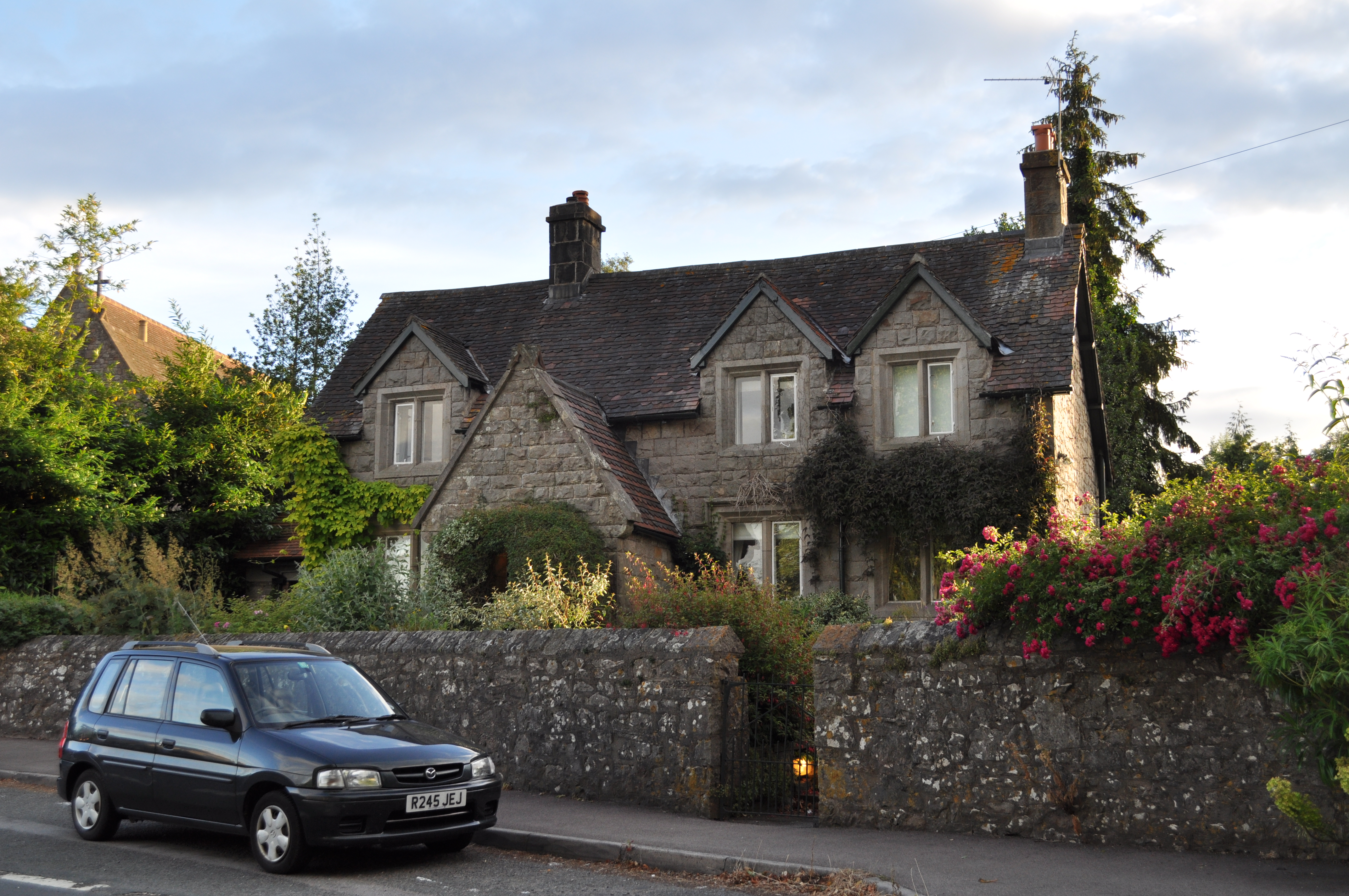 Church Cottage, Tutshill.